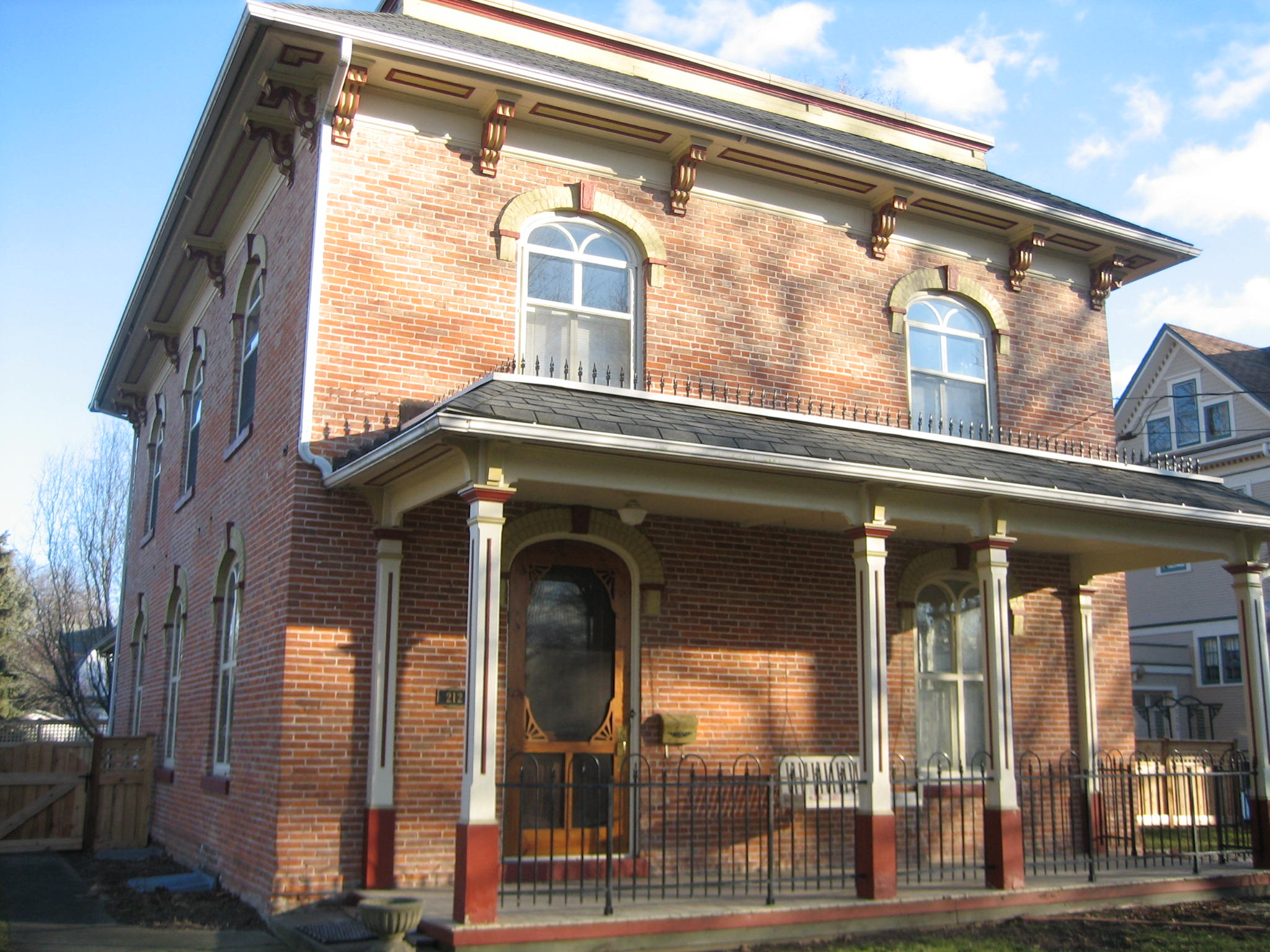 212 S. Main St. 1855 Universalist Church/Arthur Stark House, Sycamore, Illinois, Part of the Sycamore Historic District. National Register of Historic Places.